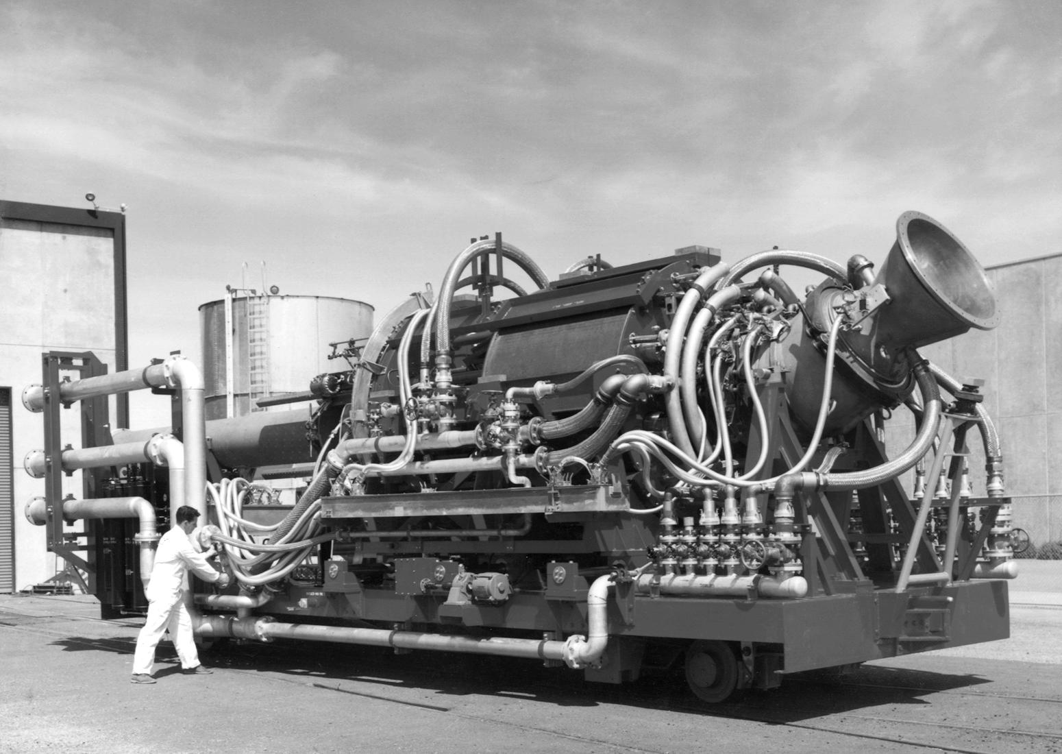 On May 14, 1961, at the Pluto Facility of the Nevada Test Site, the world’s first nuclear ramjet engine, Tory II-A, mounted on a railroad car, roared to life for just a few seconds.